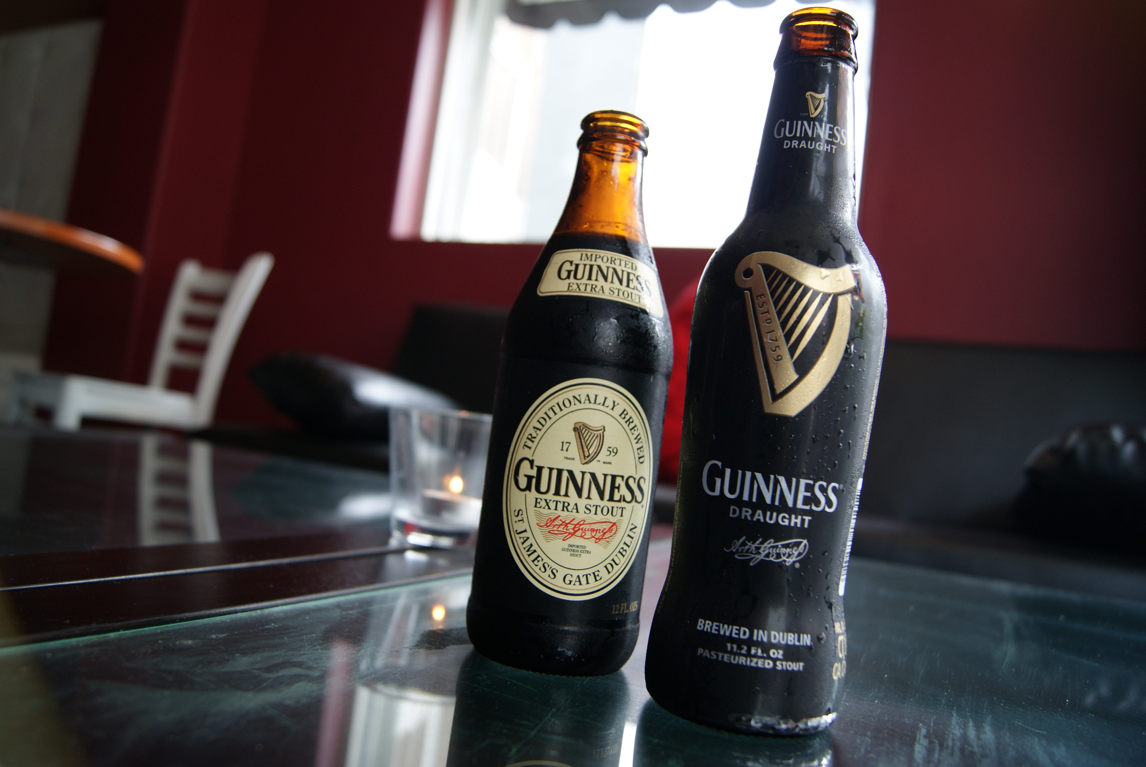 Guinness Extra Stout next to Guinness Draught. More freely usable pictures related to spirits, beer, distilling etc.